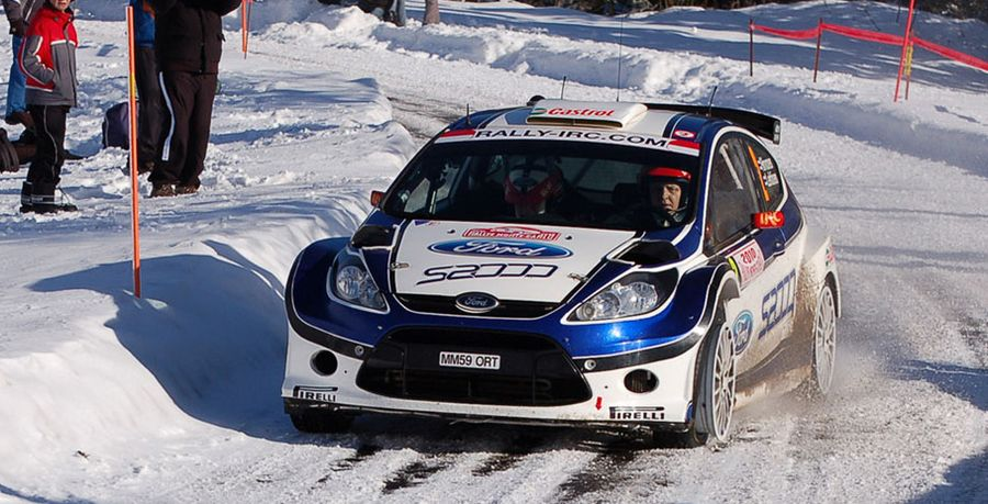 Hirvonen-Lehtinen winner of Rallye de Monte-Carlo 2010